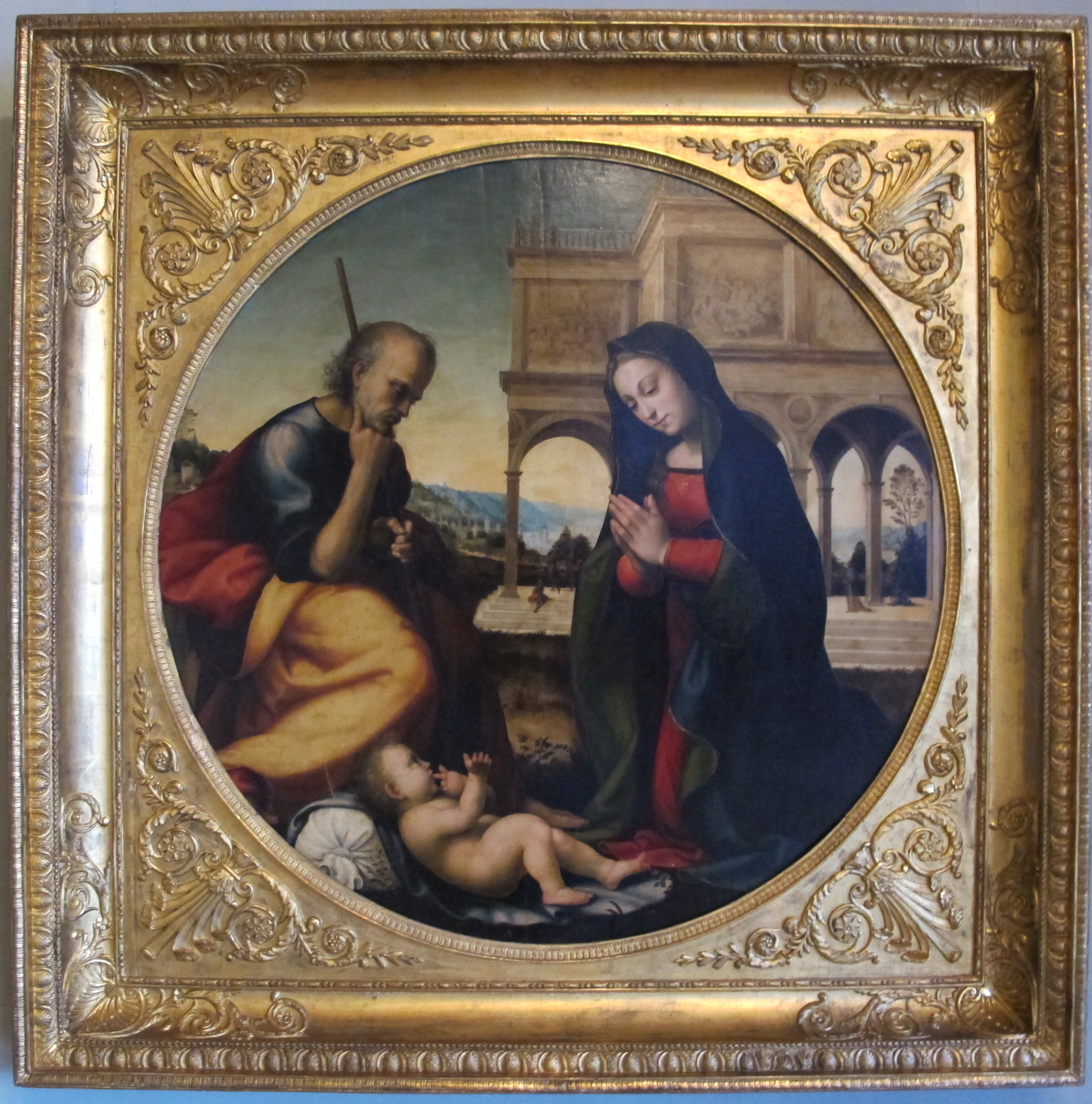 Adoration of the Child